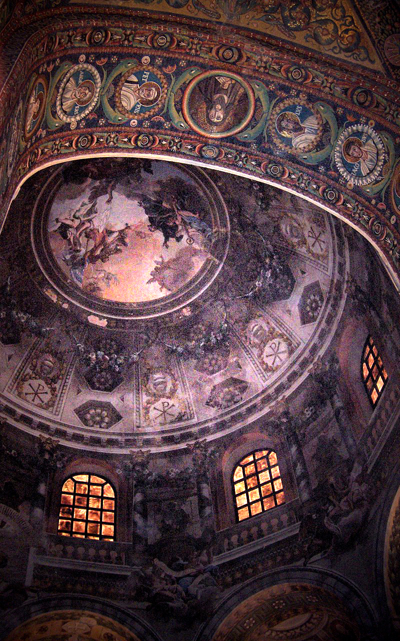 Cupola, as seen from the choir; Basilica of San Vitale in Ravenna, Italy